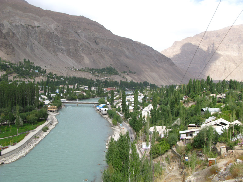 xmrmtse